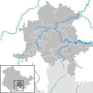 Municipalities in District Saalfeld-Rudolstadt, Thuringia